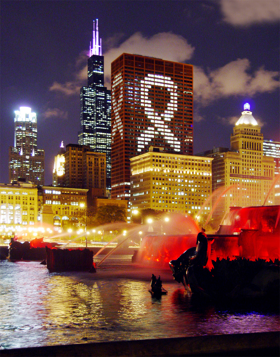 CNA’s building is often illuminated to reflect civic happenings or to acknowledge a meaningful calendar landmark. This design recognizes Breast Cancer Awareness Month.